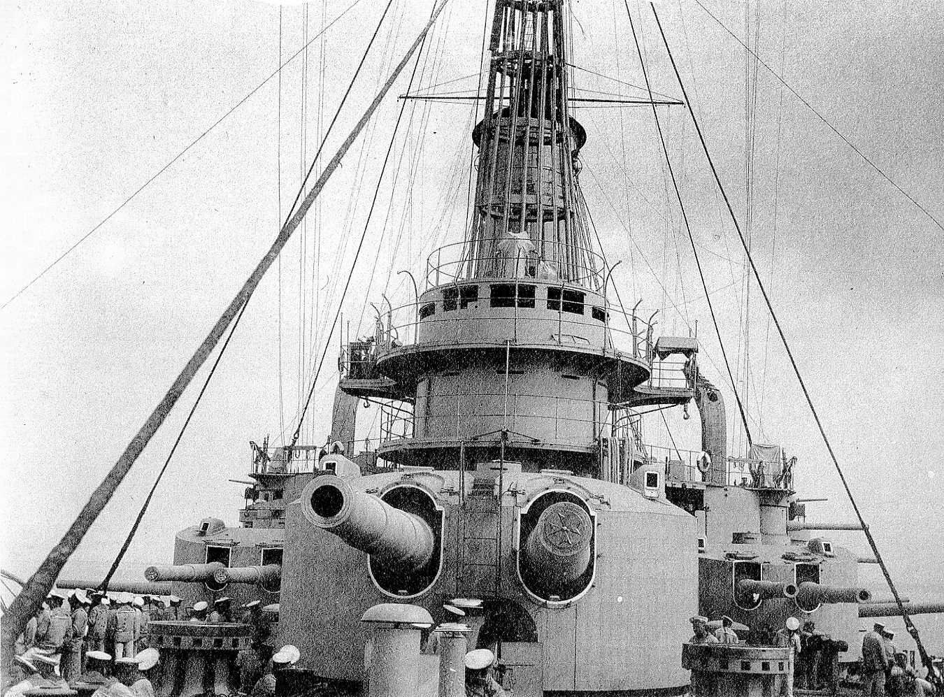 Imperial Russian battleship Imperator Pavel I.